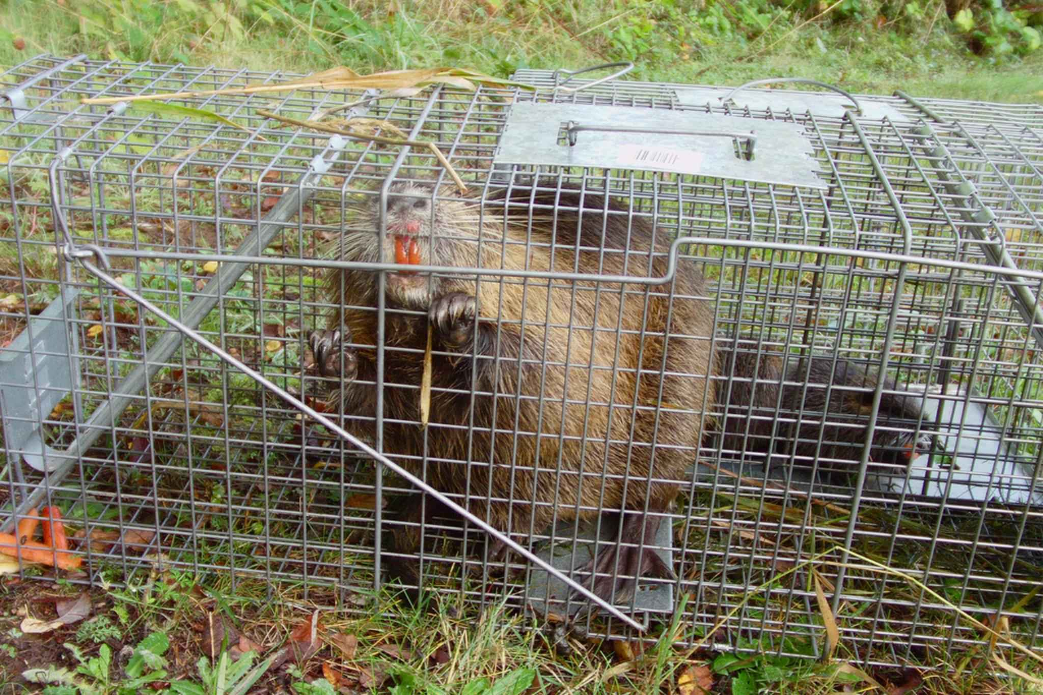 Image title: The animals are trapped Image from Public domain images website